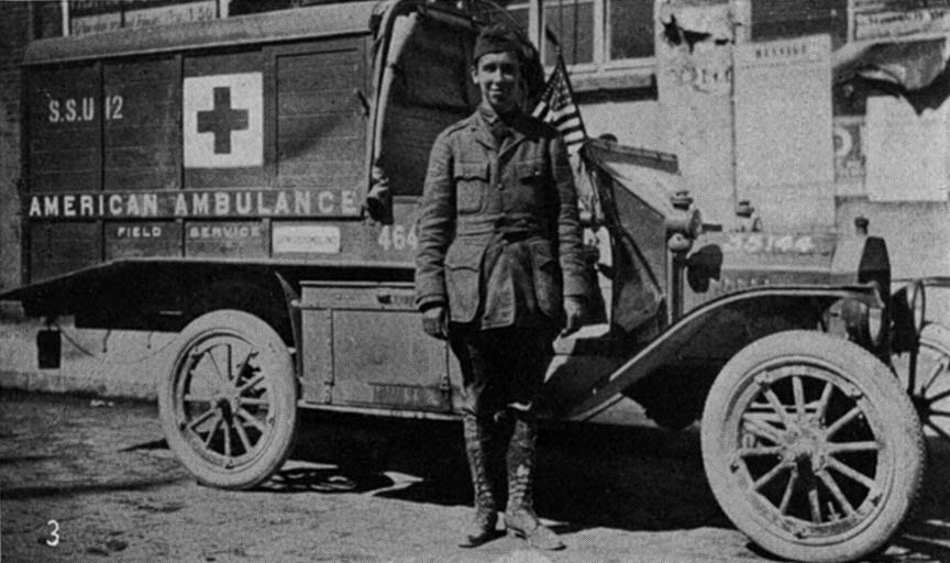 World War I in Reims-Verdon sector, France. Original caption: “"464" and her driver. Directly above the hood, on the wall behind, is posted president Wilson's Message of April 2nd, 1917.”